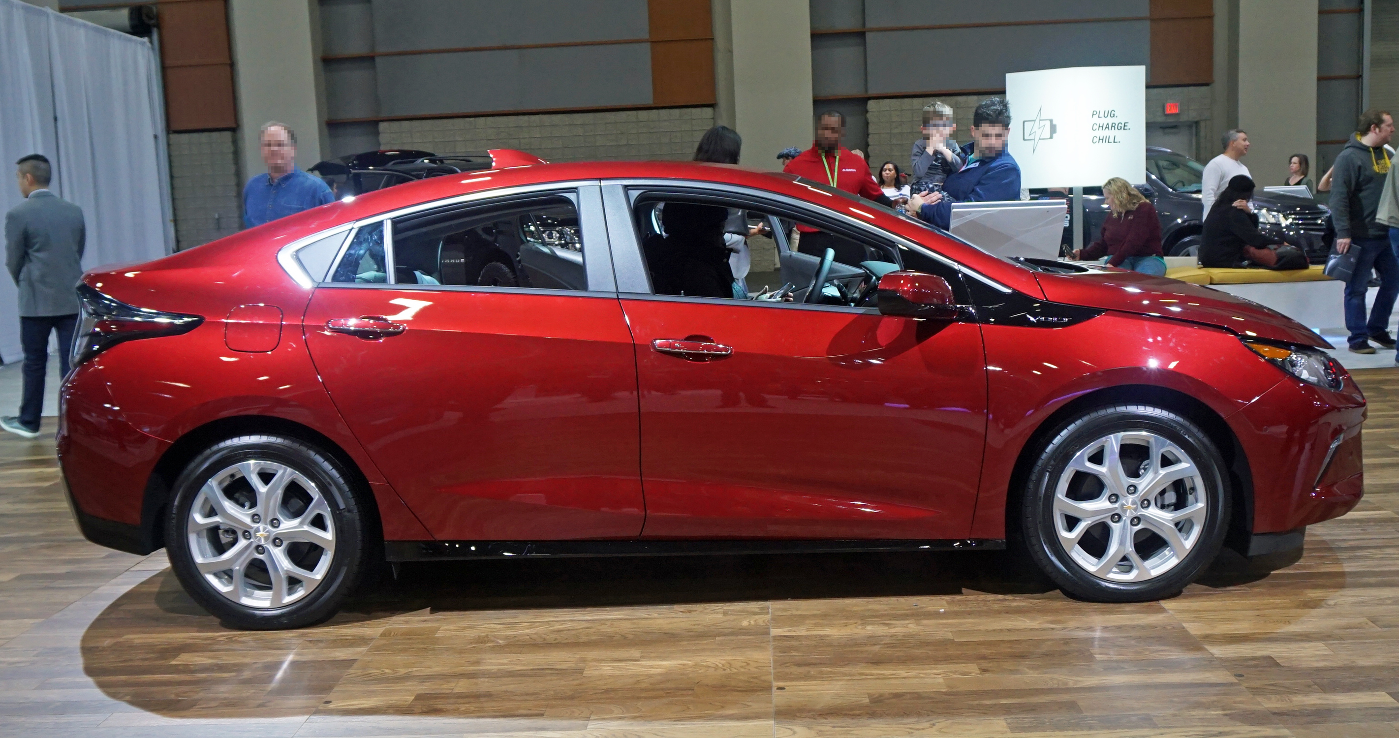 2017 Chevrolet Volt second generation at the 2017 Washington Auto Show, DC, USA.